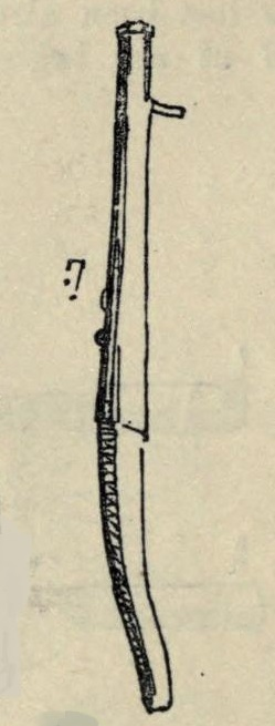 Hand cannon in wrought iron, called a petronel, to be used by a knight. It is of the end of the fifteenth century.